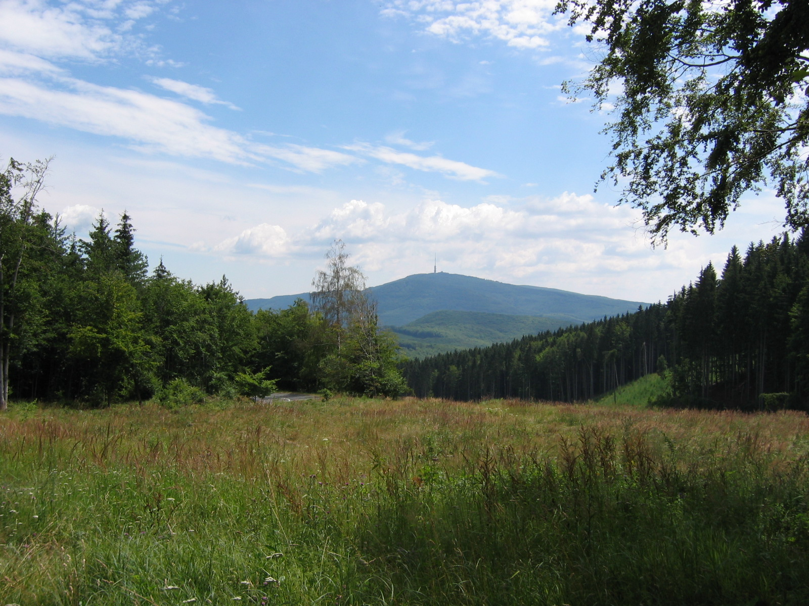 Kékes